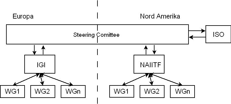 Organisation of ISOBUS